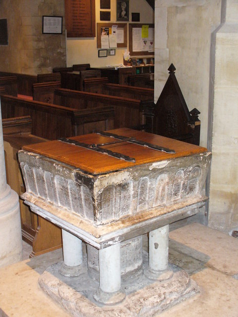 Mickleham font. 13th century font of Sussex marble in St Michael's, Mickleham's Norman parish church.